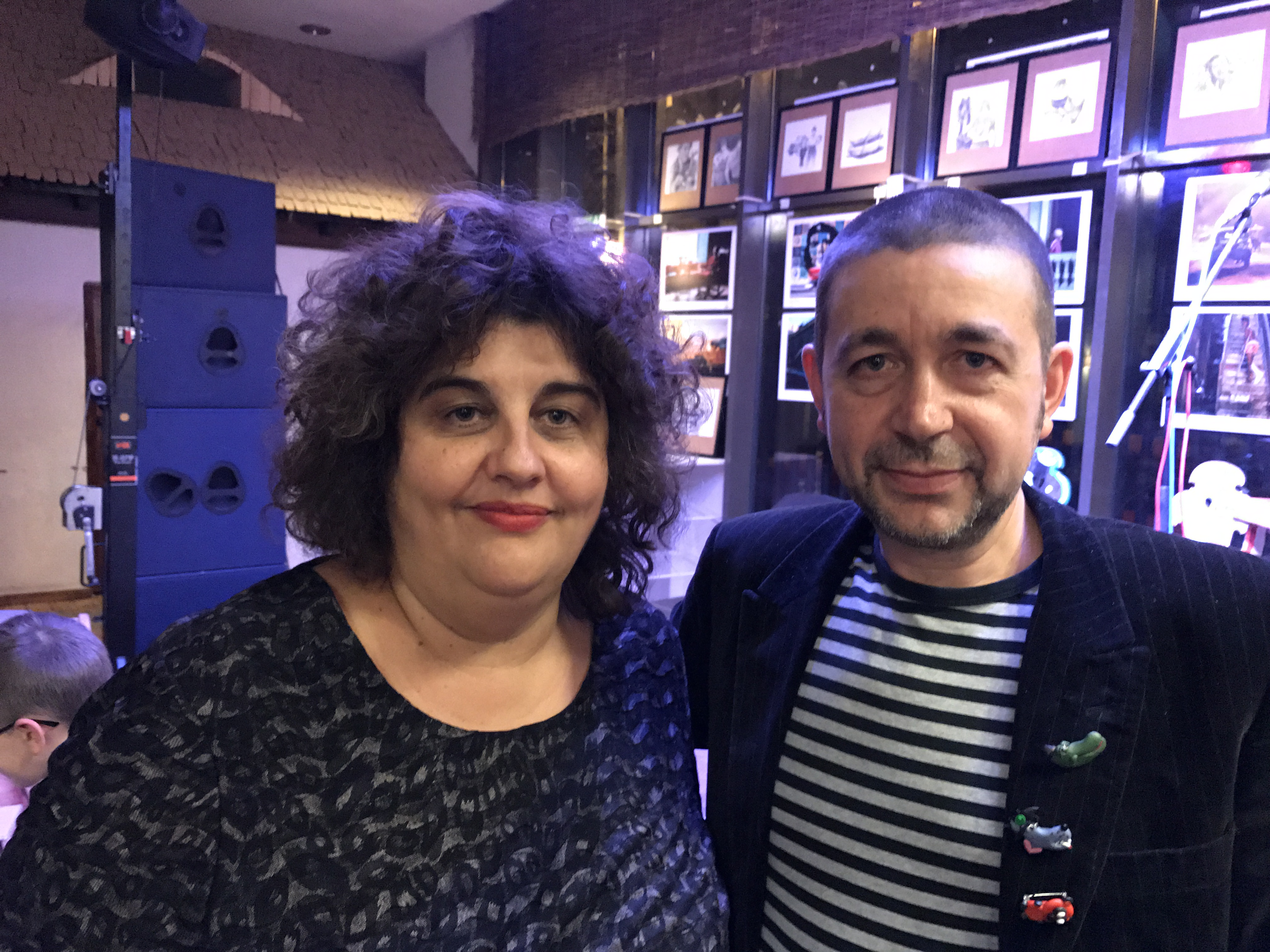 Lansarea Bandiților lui Vasile Ernu, 2016